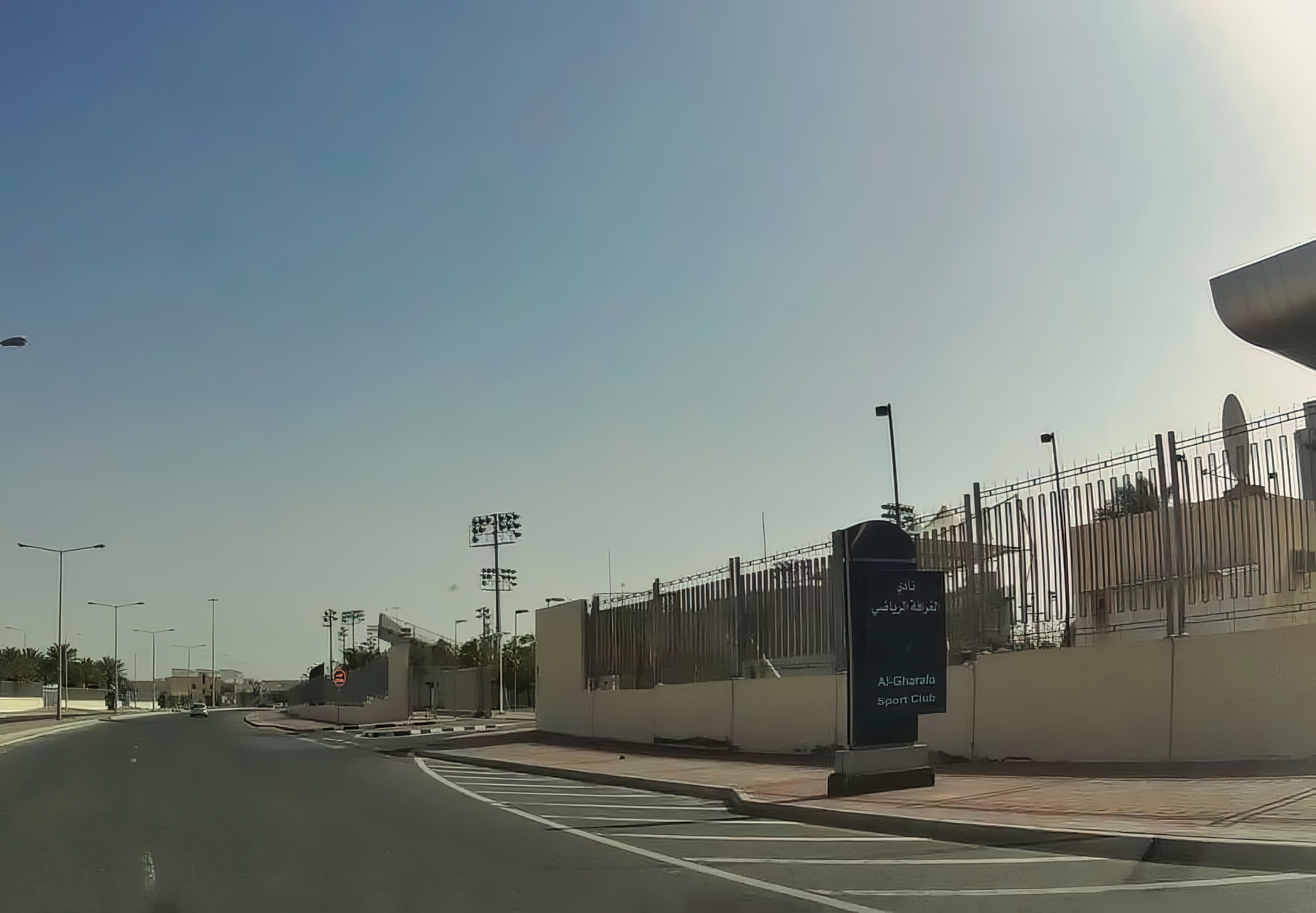 Entrance to Thani bin Jassim Stadium (Al Gharafa Stadium) in Al Gharrafa, Al Rayyan Municipality, Qatar.